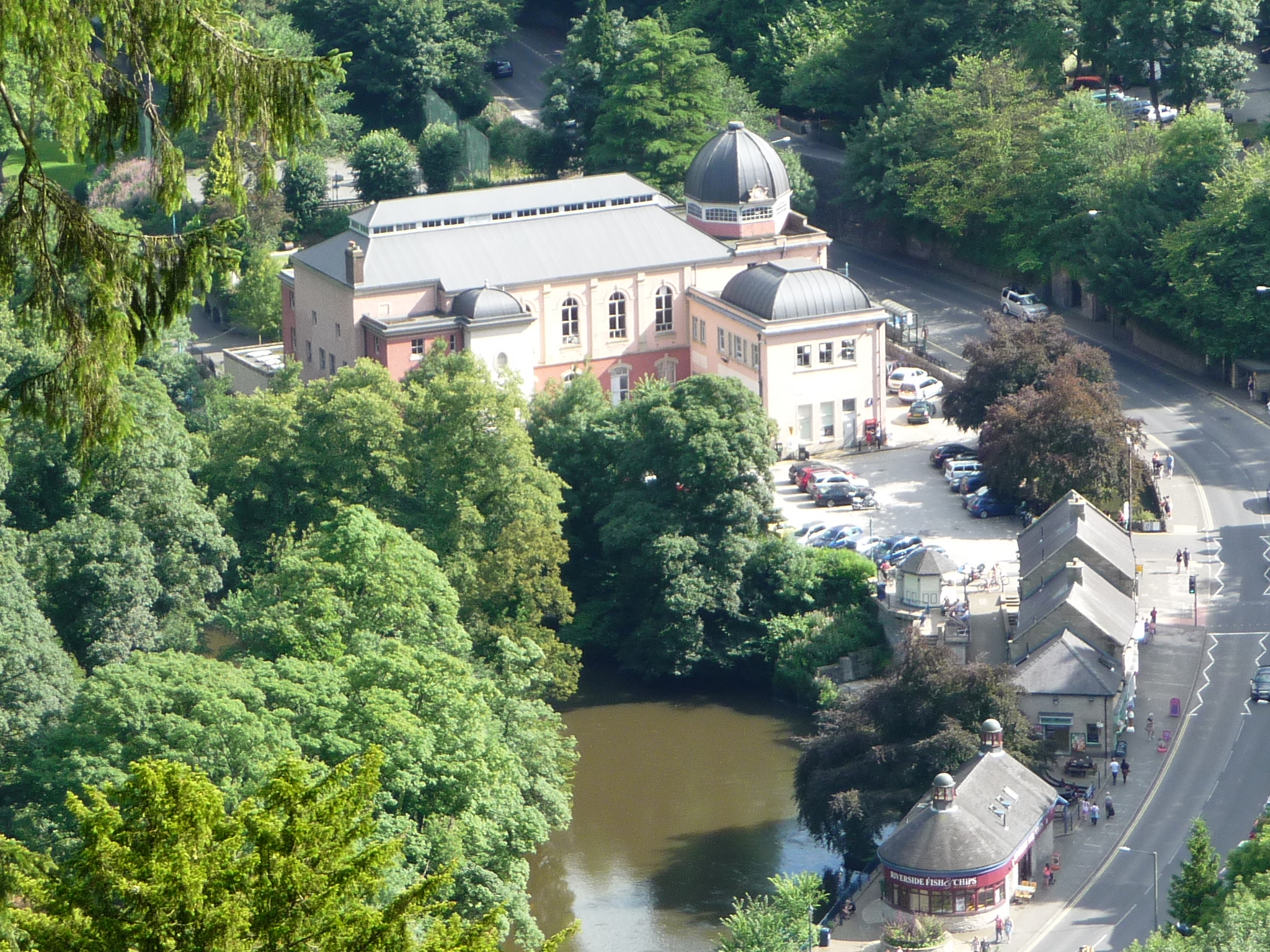 Matlock Bath is a village and civil parish situated south of Matlock. In 1698 warm springs were discovered and a bath house was built.